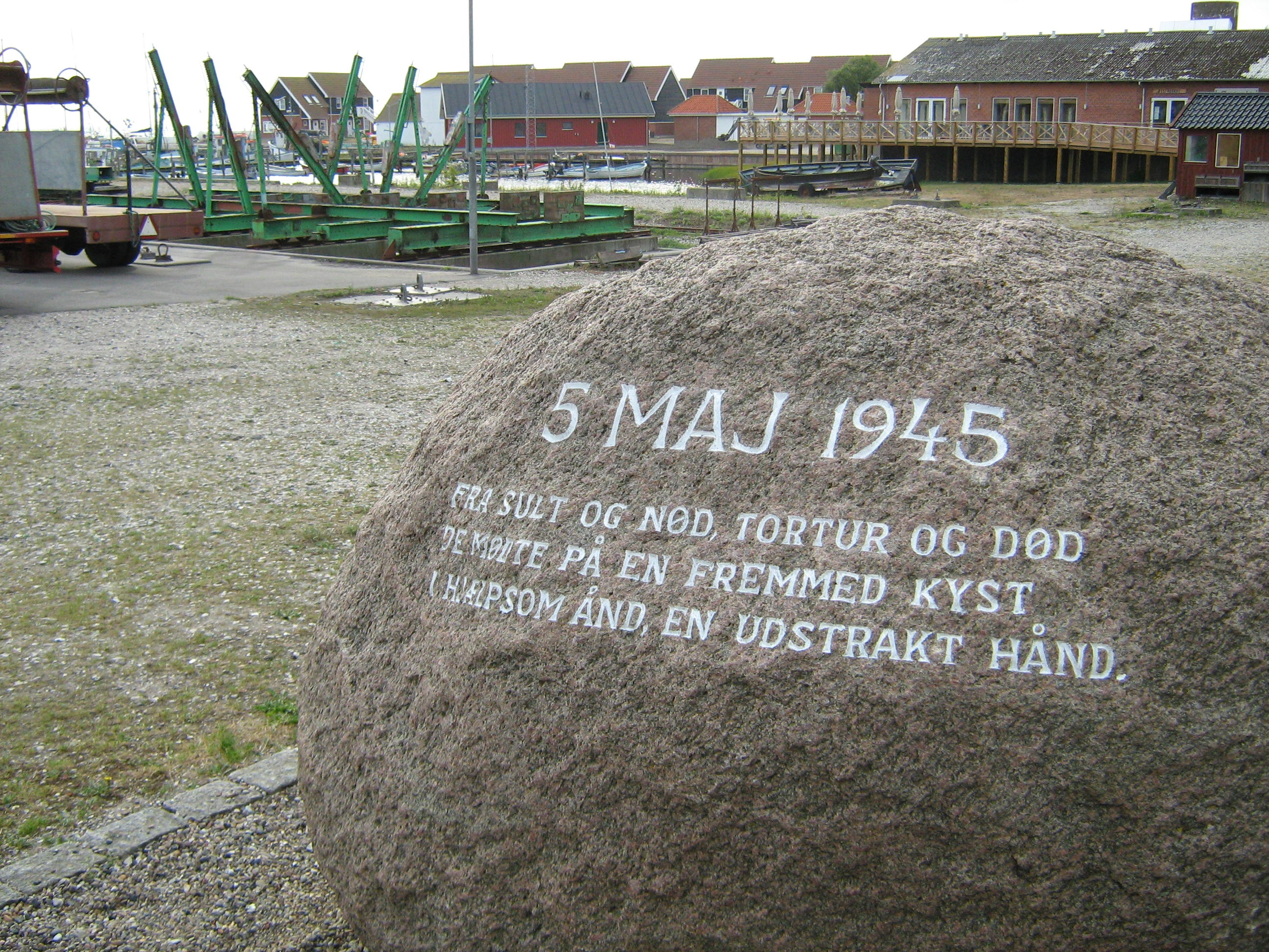 Memorial stone at Klintholm Havn, Møn, Denmark, commemorating the rescue of 351 prisoners from Stutthof concentrstion camp who were washed up in a barge on 5 May 1945.